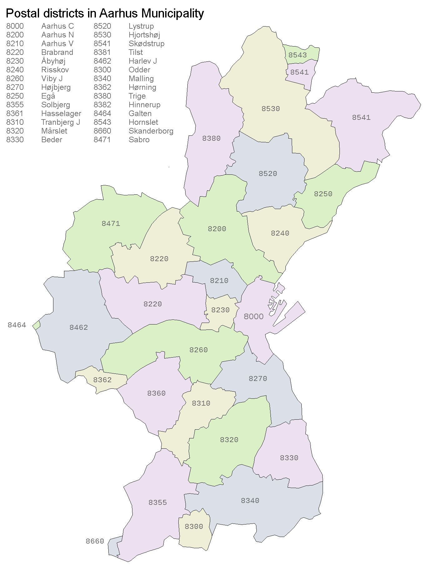 Postal Districts of Aarhus Municipality, Denmark w. English titles Danish: Postdistrikter i Aarhus Kommune, Danmark m. Engelske titler Data based on Aarhus Municipality atlas and department of district information. Mapping data maintained by Geodanmark in cooperation with the Association of Danish Municipalities. All rights granted for worldwide public use, copying and transformation. All rights granted for worldwide public use, copying and transformation. (pdf)